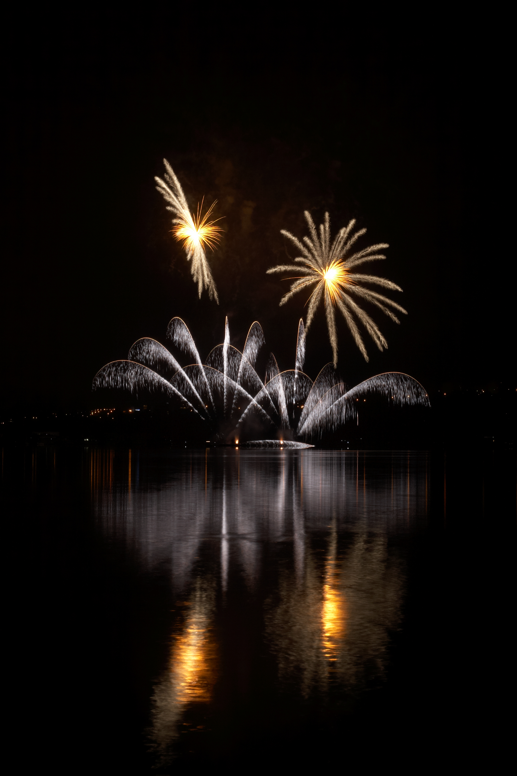 Contest performance on Brno dam of group Macedo´s Pirotecnia from Portugal